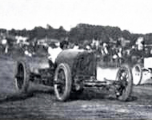 Barney Oldfield sets new record at Readville Race Track Sept 9, 1905